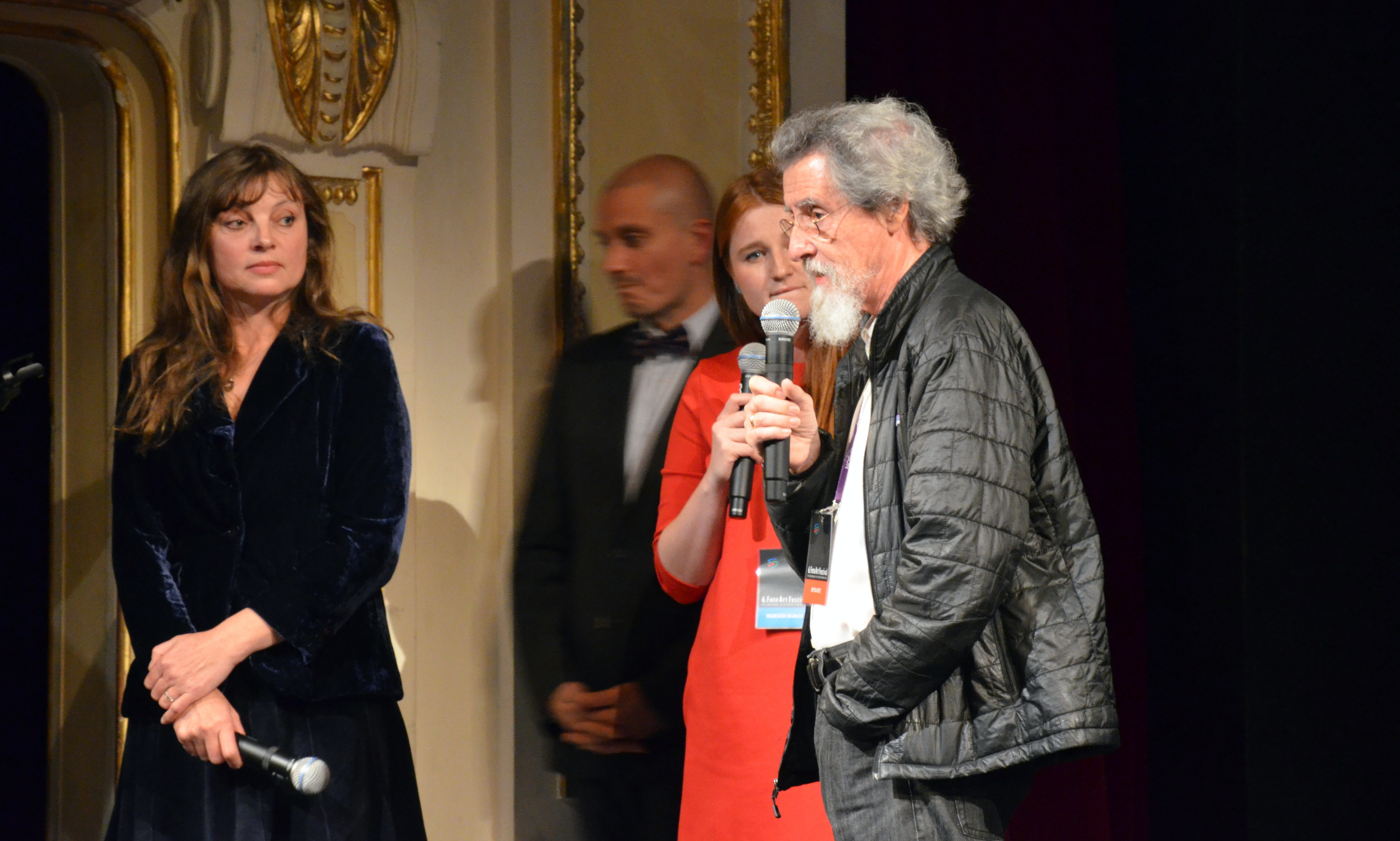 Inez Baturo (left) and Rafael Navarro during the 6th Photo Art Festival in Bielsko-Biała (2015)